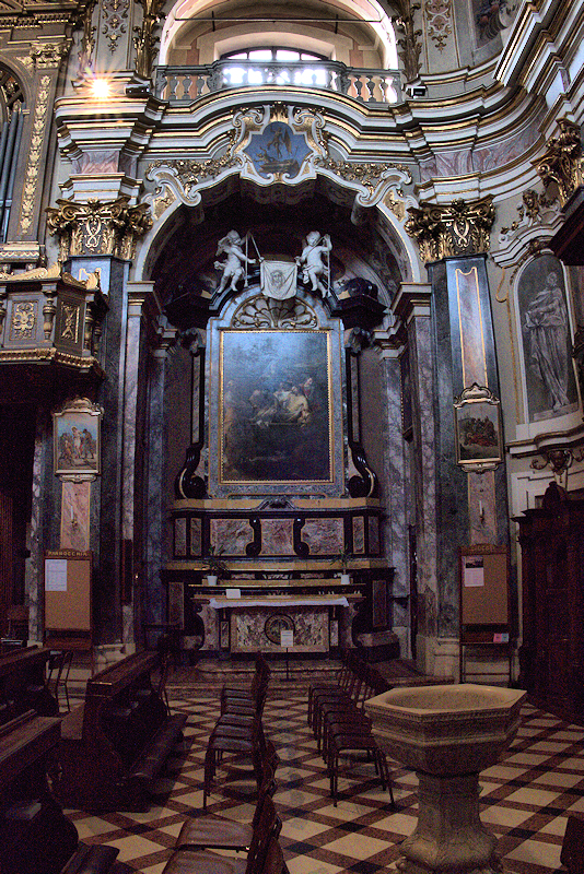 First chapel on the right of "Santissima Trinità" church in Crema, Italy